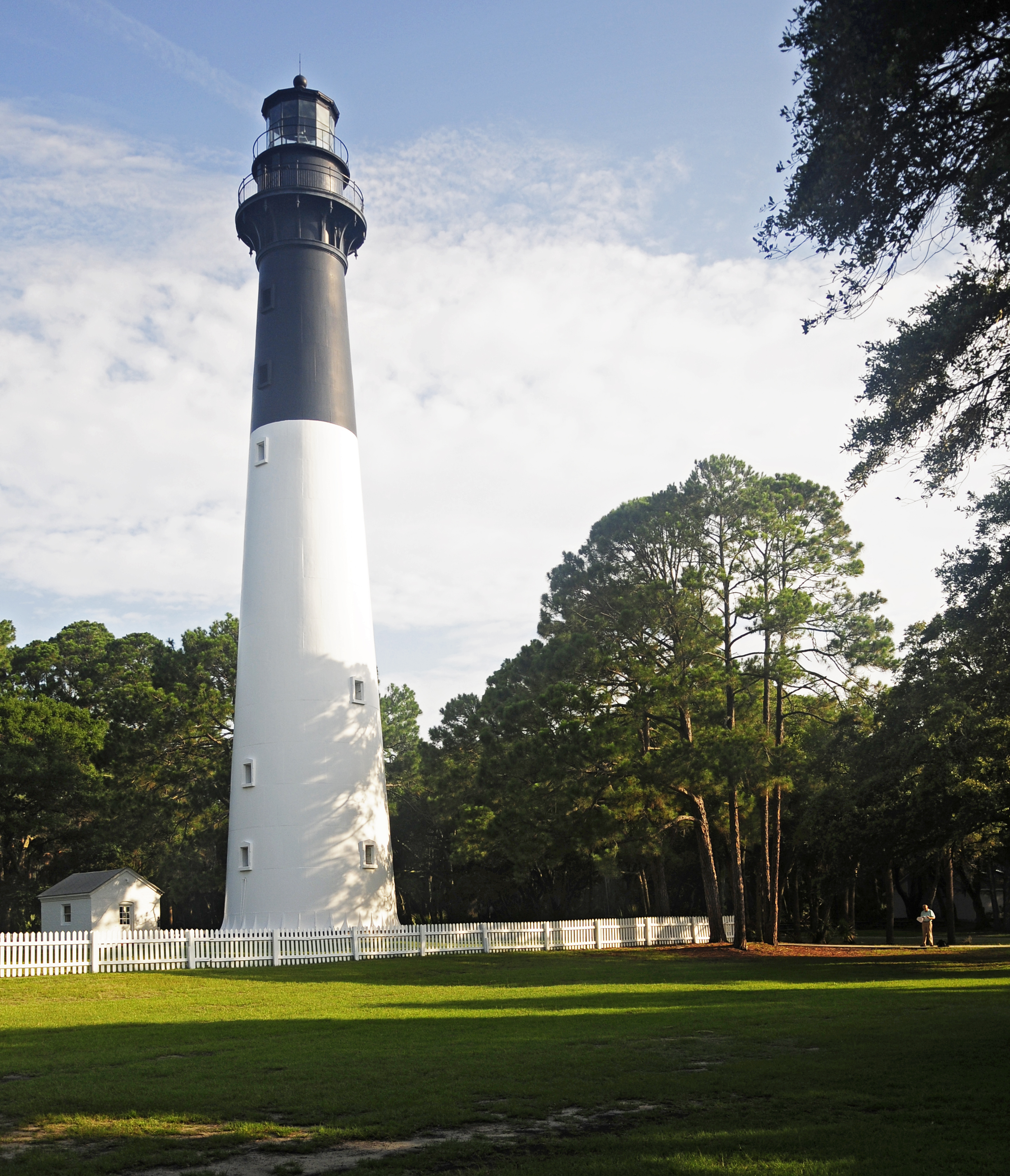 Hunting Island Lighthouse — in Hunting Island State Park, Beaufort County, South Carolina.